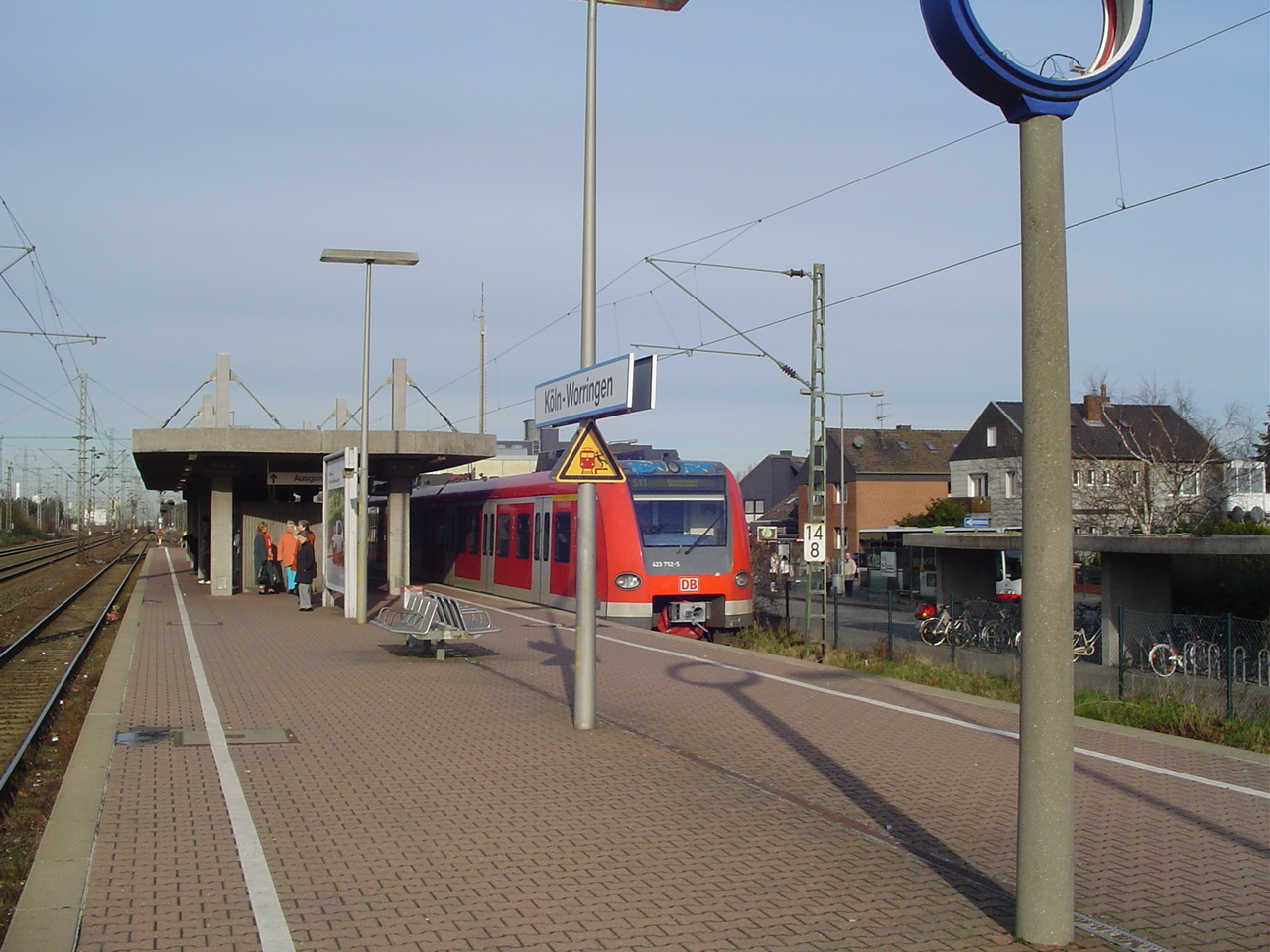 K-Worringen train station (S-Bahn) in Cologne, Germany